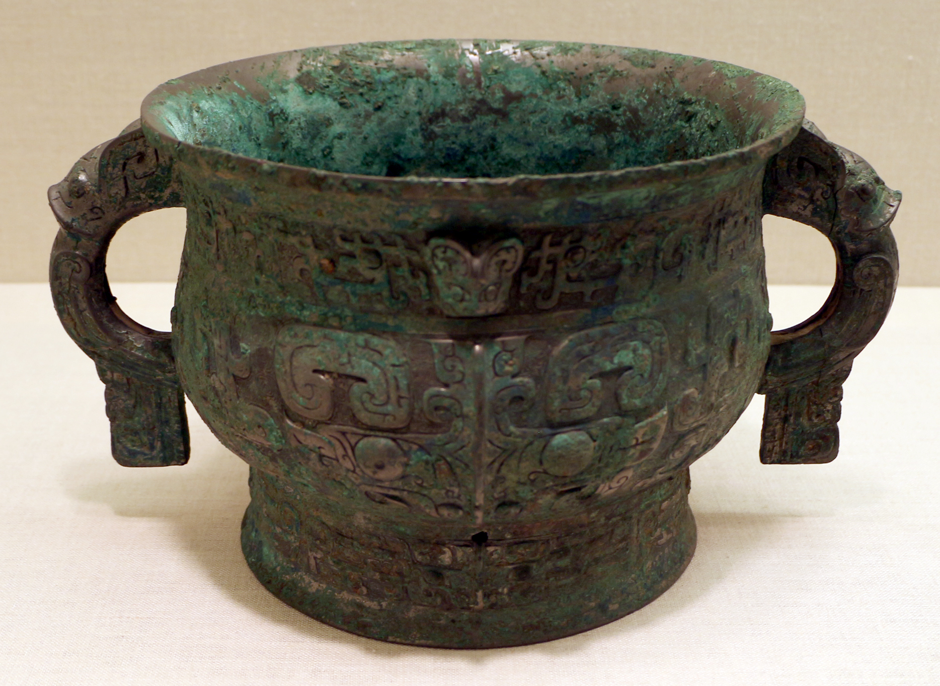 Chinese art in the Art Institute of Chicago